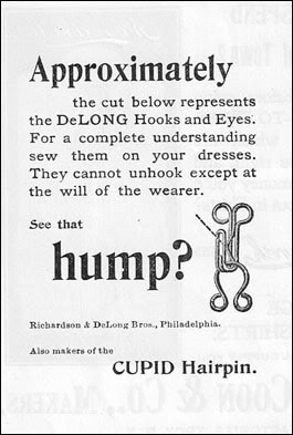 19th Century advertisement of DeLong Hook & Eye